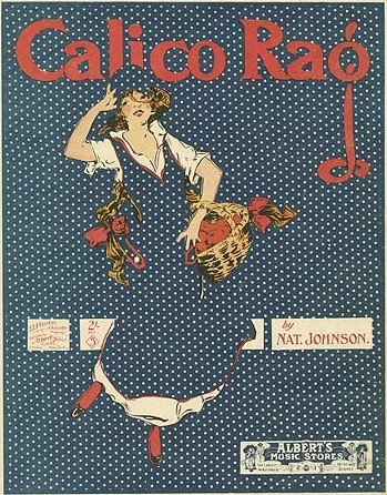 Calico Rag, 1914